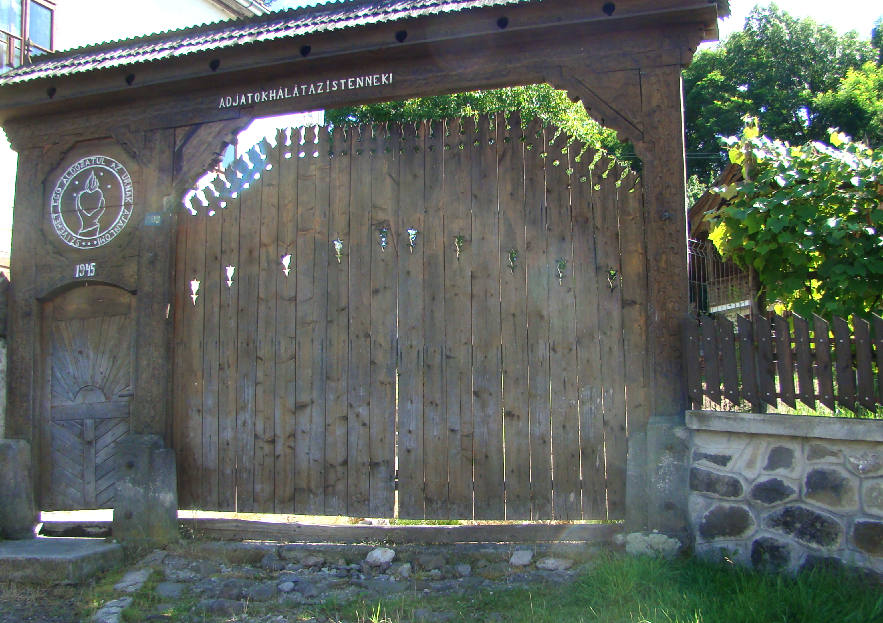 Reformed church in Ocna de Jos, Harghita County, Romania